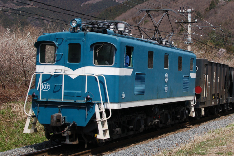 Chichibu Railway Class DeKi 100 electric locomotive DeKi 107